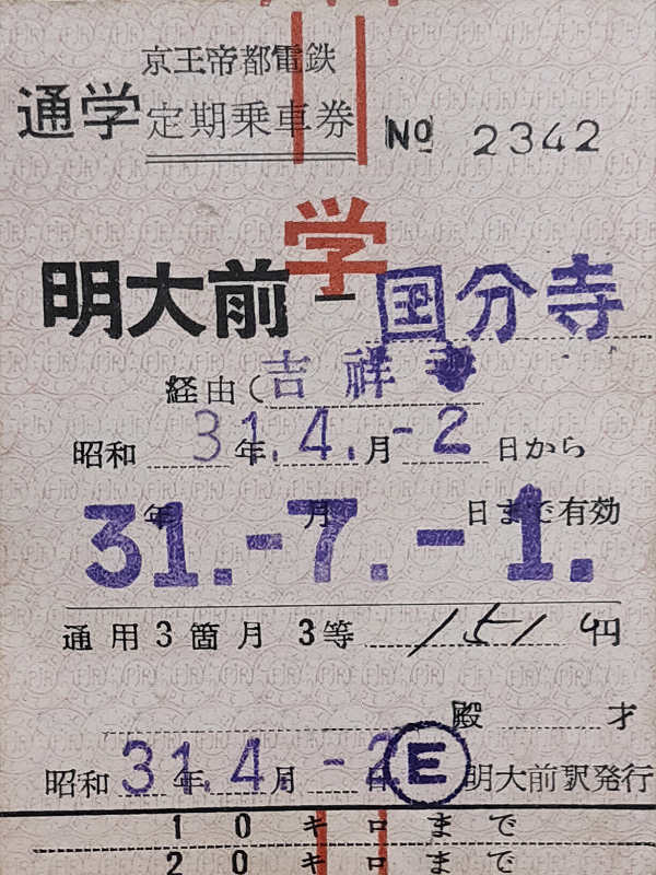 School commuter pass 1956